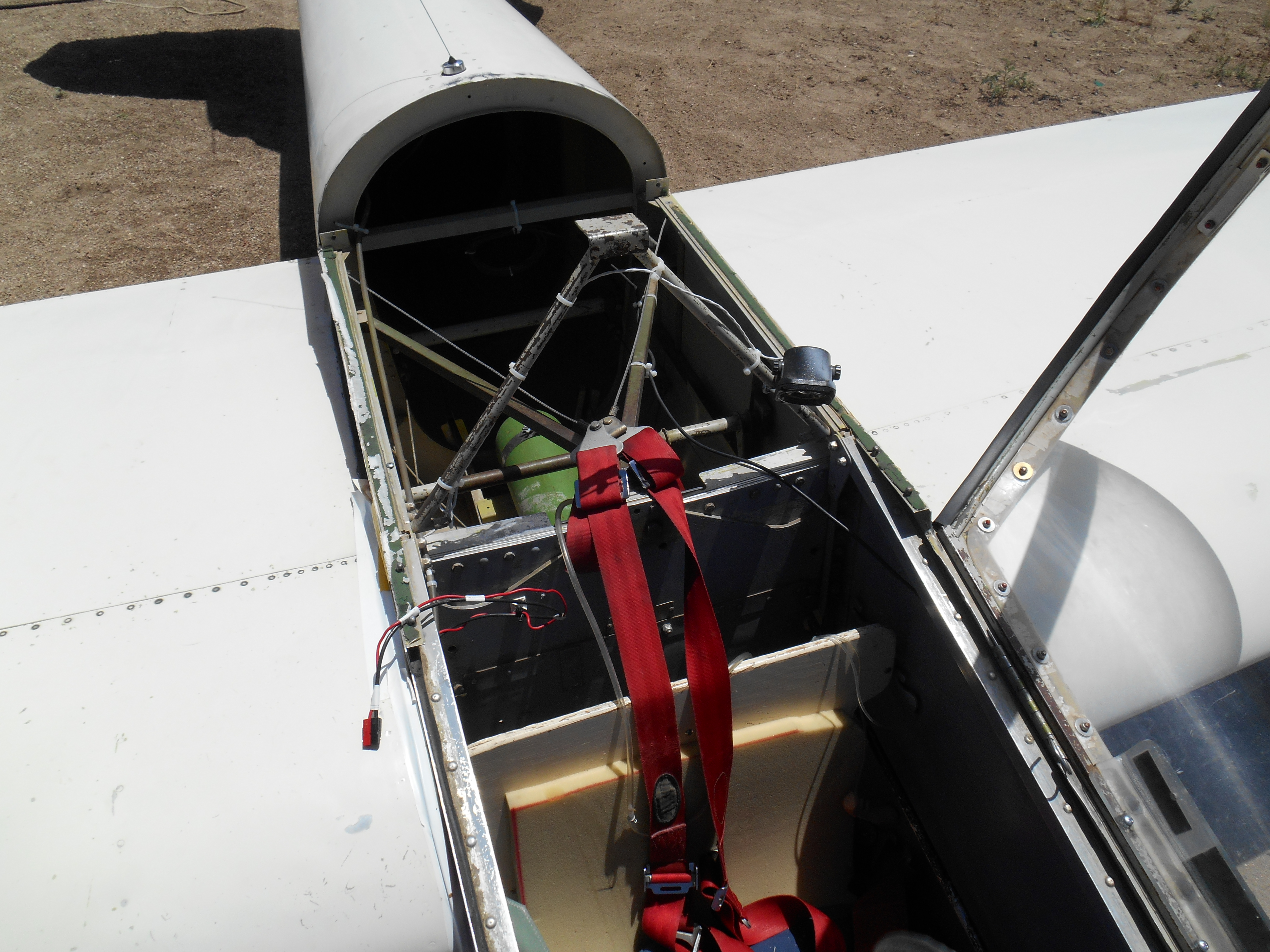 Schweizer SGS 1-26 with top panel off, showing connections.